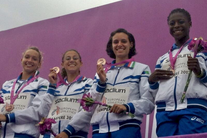 Podium Tampere 2103. From left to right: Laura Gamba, Irene Siragusa, Martina Amidei, Gloria Hooper